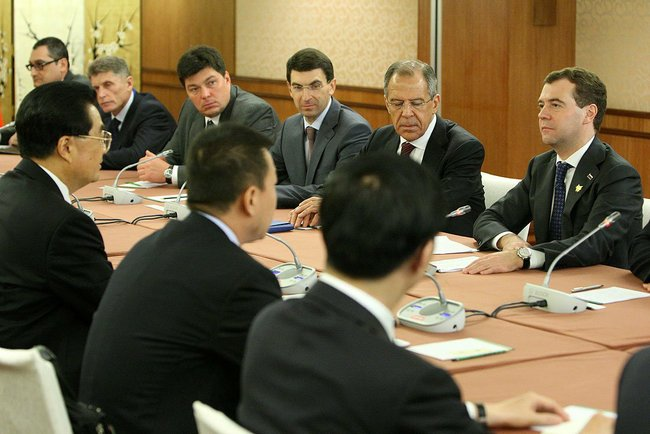 SINGAPORE. During the meeting with President of China Hu Jintao.